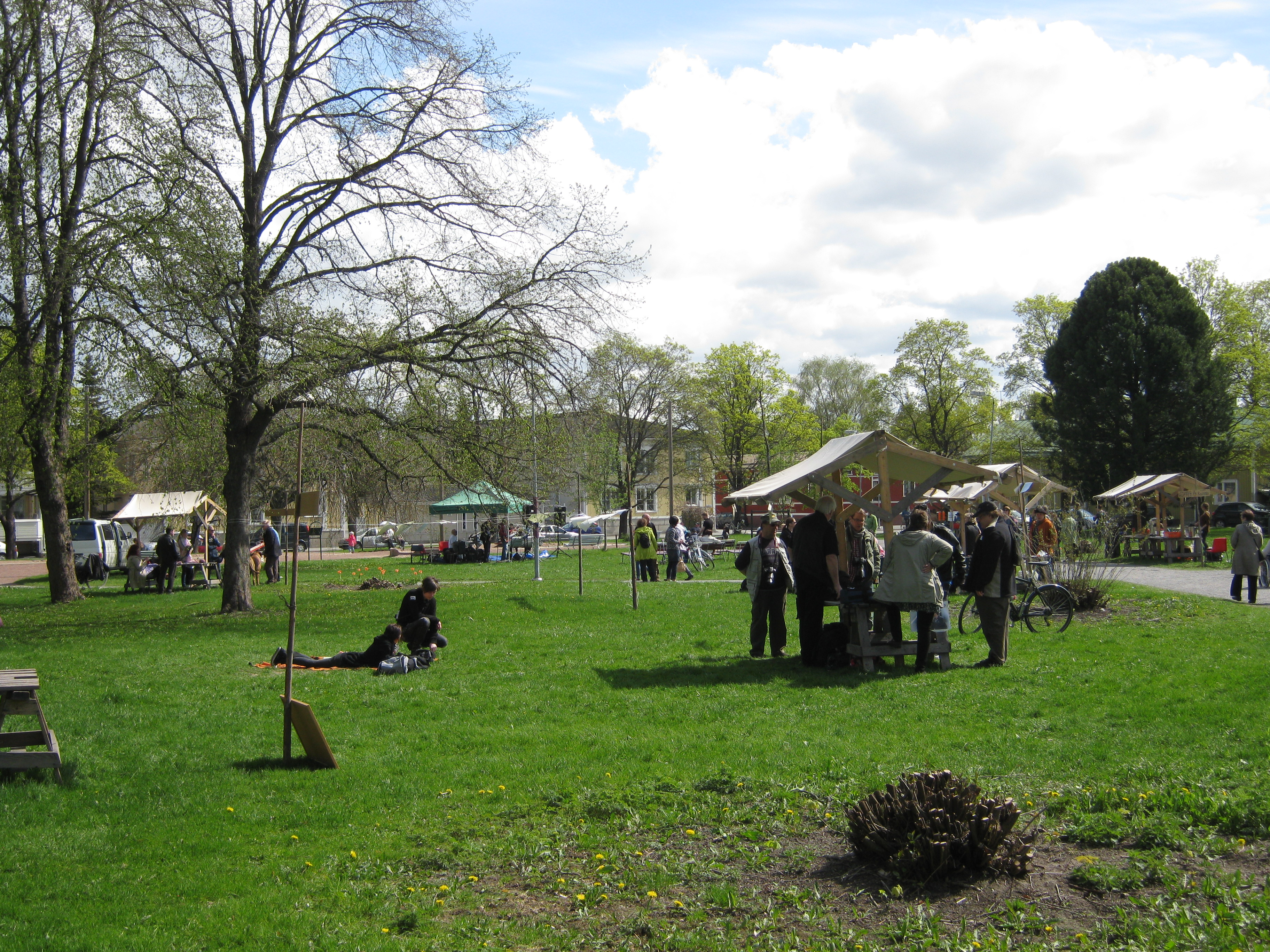 The Sibelius Park in Pori, Finland.